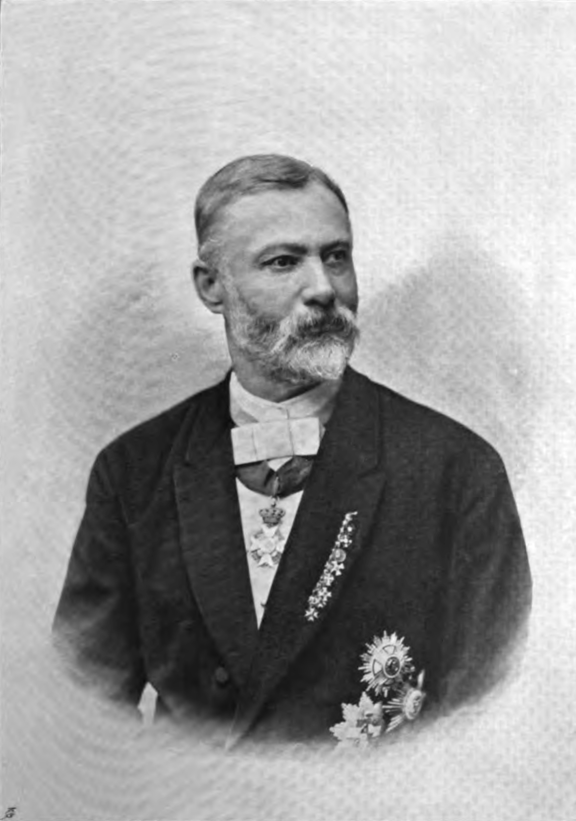 Ottomar von Volkmer (1839–1901), Austrian chemist, physicist and publisher